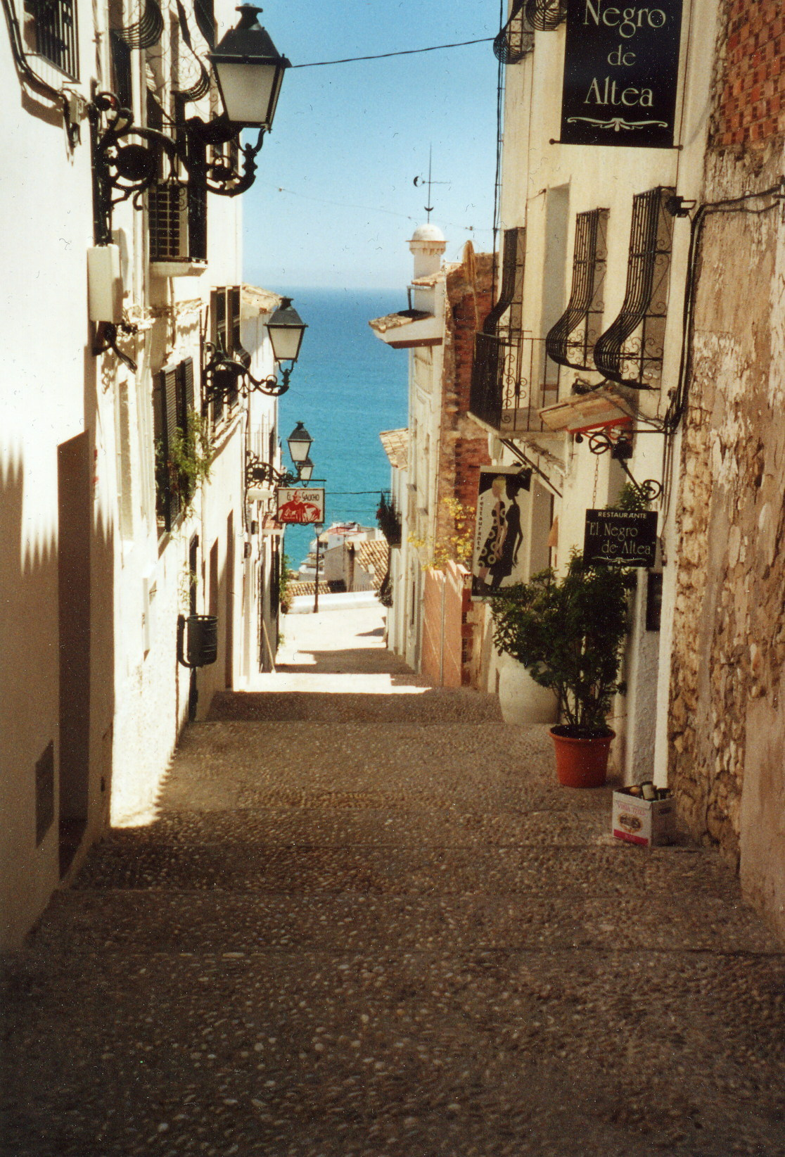 Altea, view on the ocean, seen from old town.